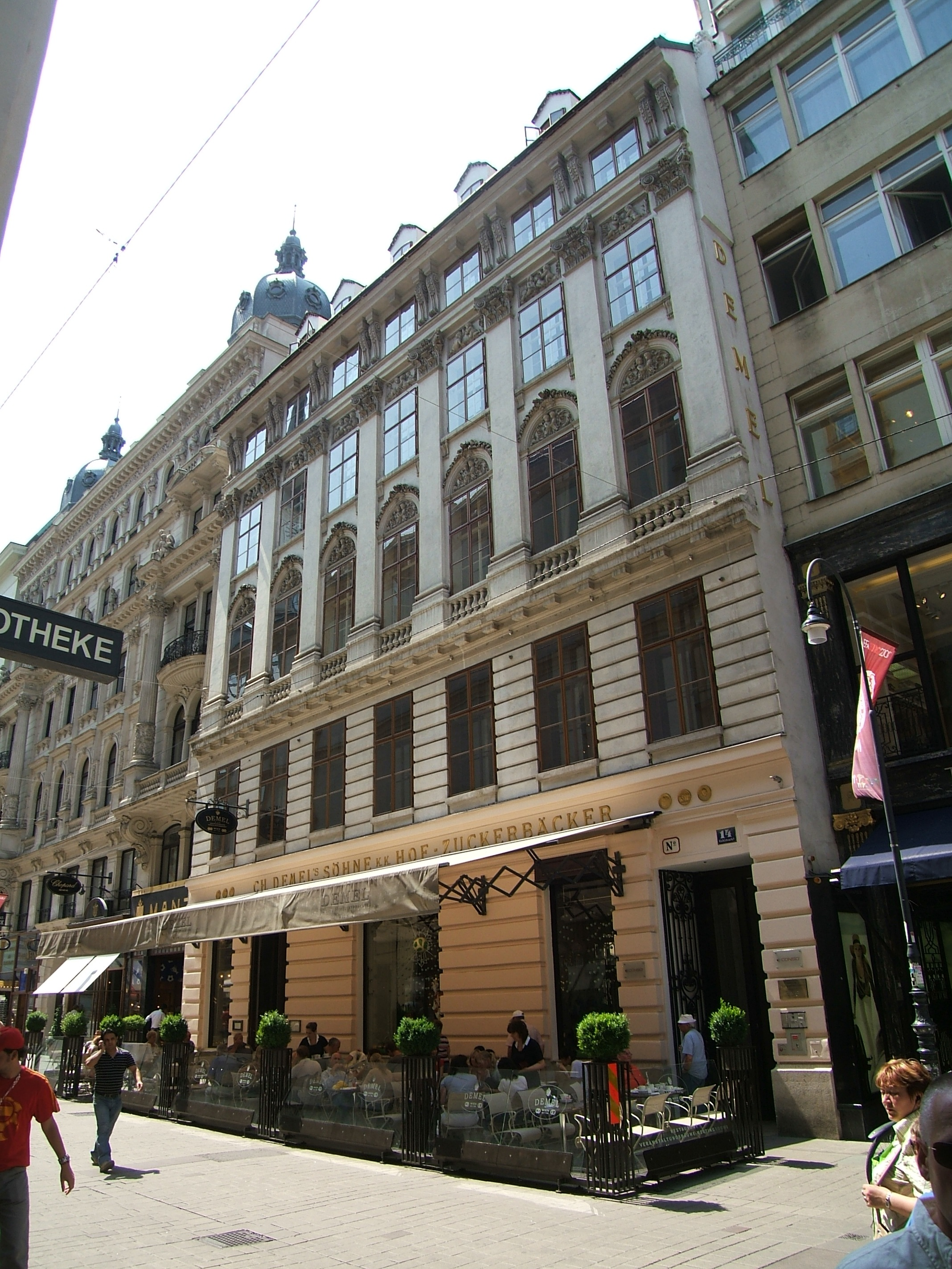 Palais Blankenstein in Vienna 1st district Kohlmarkt 14.